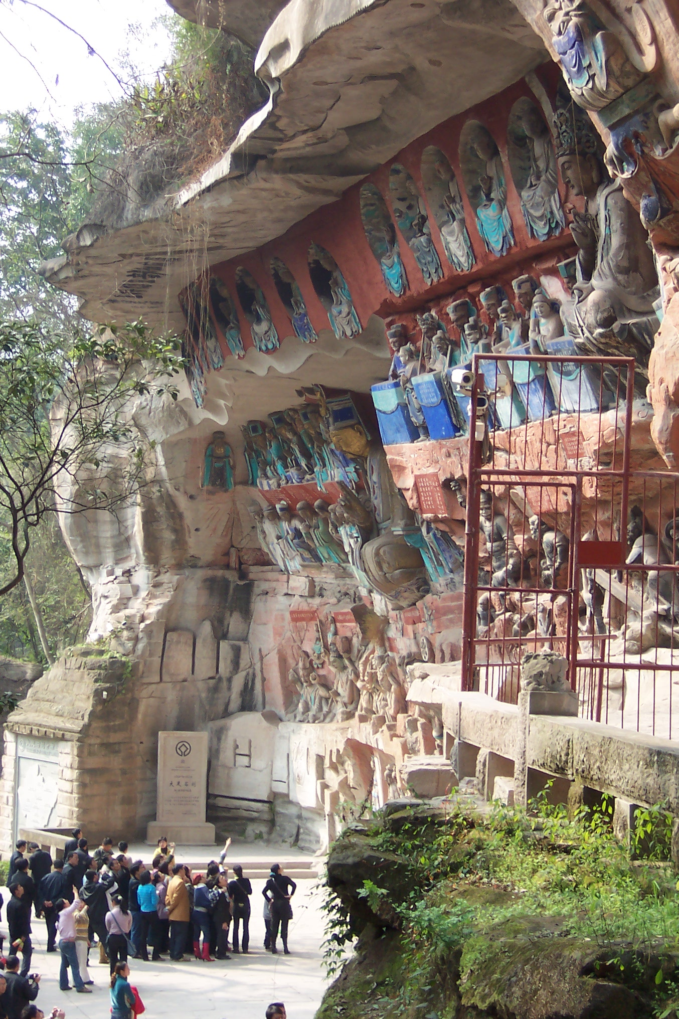 Dazu rock carvings, Bao Ding Shan, 18 layers of hell